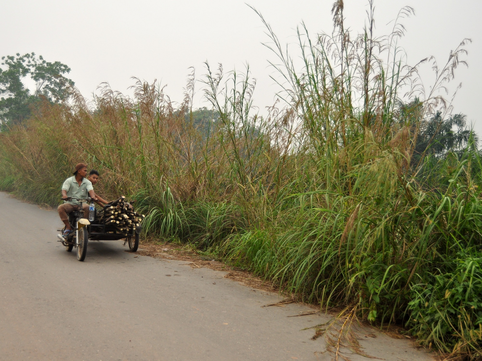 Themeda gigantea, habits (compared w/ tricycles). From Rokan Hilir, Riau, Indonesia.